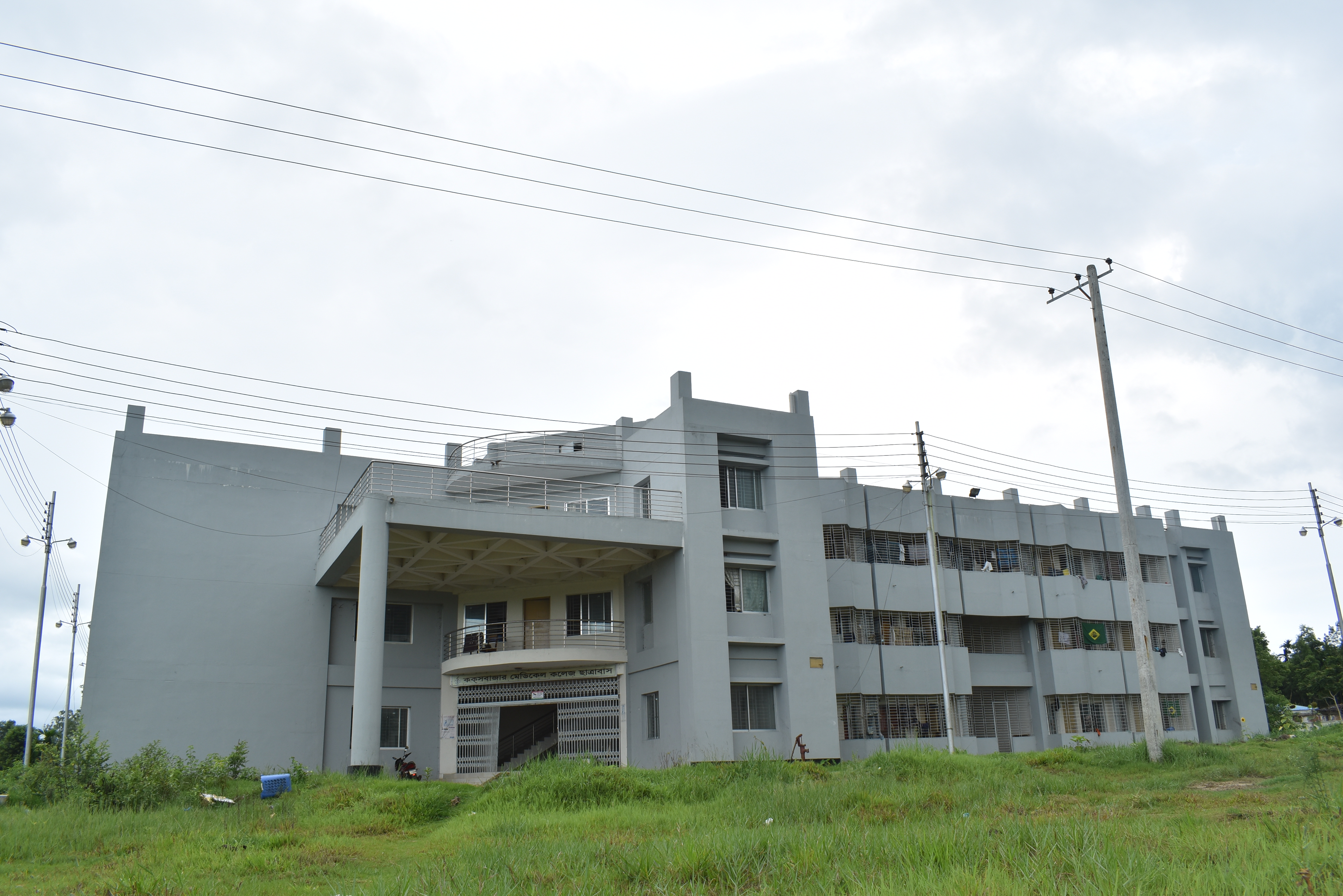 Snapped by Shouvick Chakma Tanza of CoxMC 6th Batch